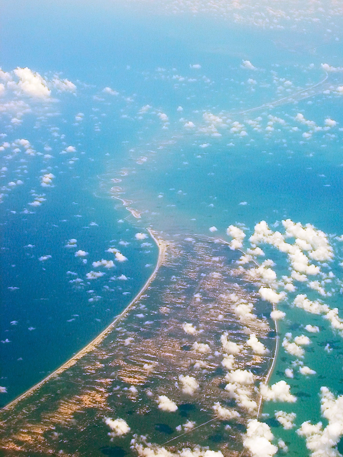 Aerial view of Adam's Bridge, taken while flying over Sri Lanka looking west.